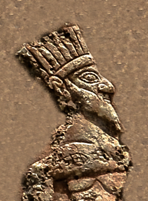 Anubanini relief constituents prisoner king. See [1]